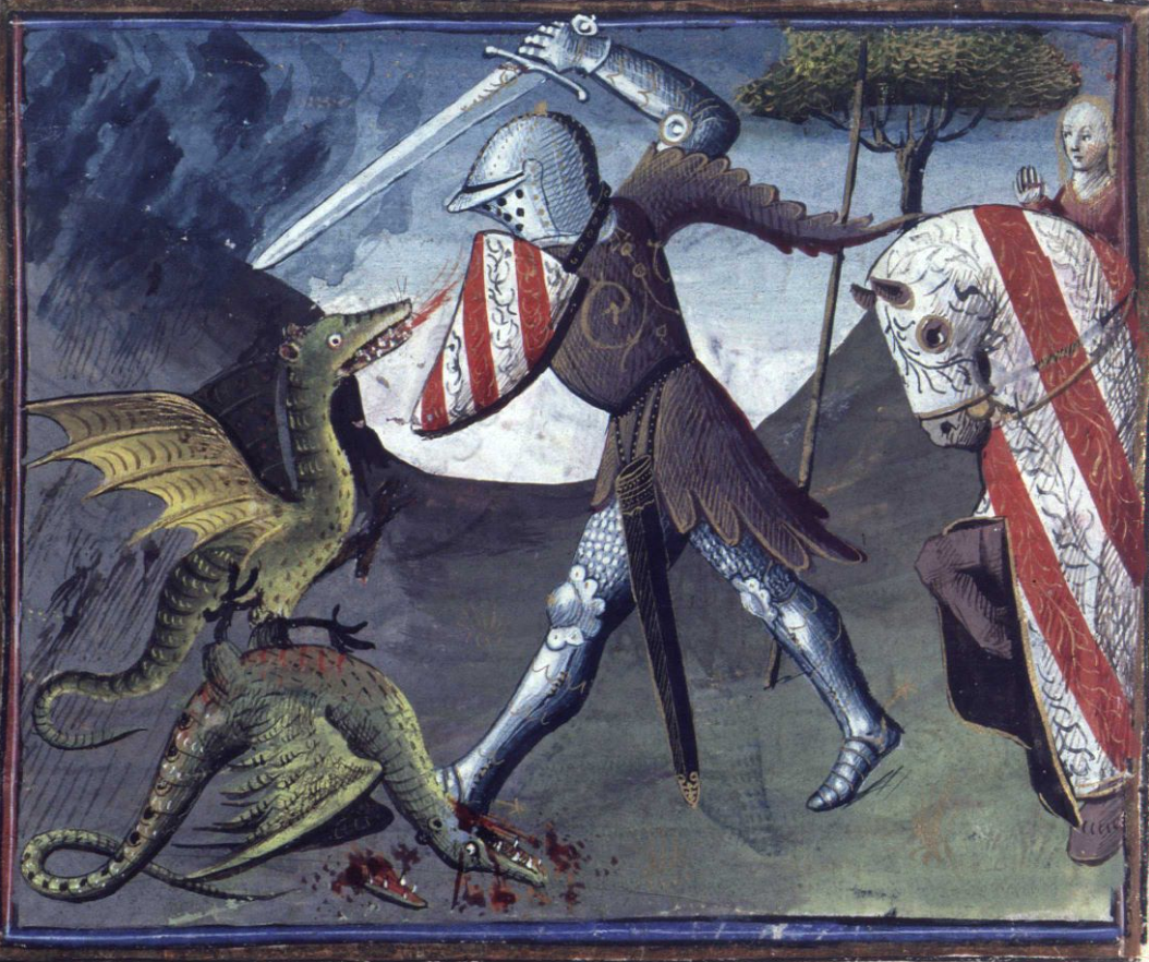 In the Val without return, Morgan holds unfaithful lovers prisoner. To free them, Lancelot must lift the spells and face the two terrible dragons guarding the entrance of the valley.